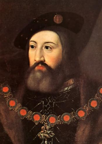 Detail of the original painting of Mary Tudor and Charles Brandon's wedding portrait by Jan Gossaert in the collection of the Earl of Yarborough; Brocklesby Park, Lincolnshire.